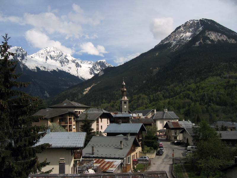 The town of Bozel in France